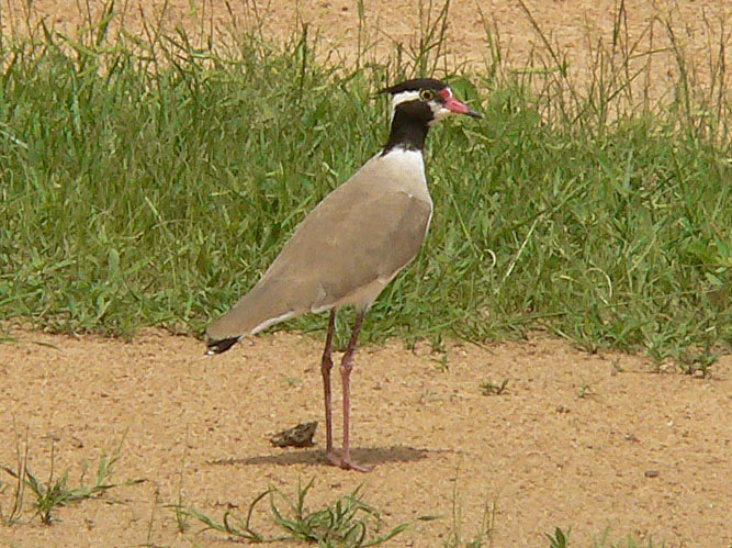 Black-headed lapwing Vanellus tectus photographed near Wacha (Département de Zinder) in eastern Niger.